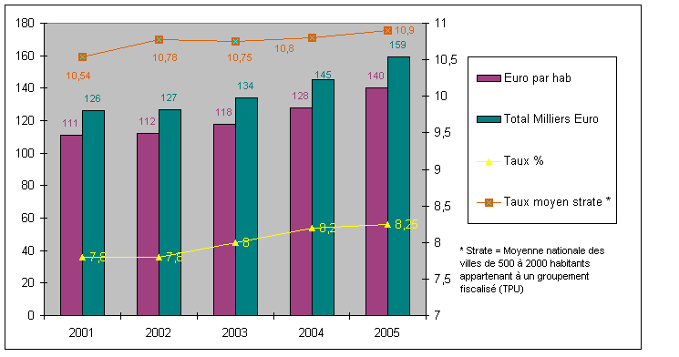 Taxe Habitation Grambois